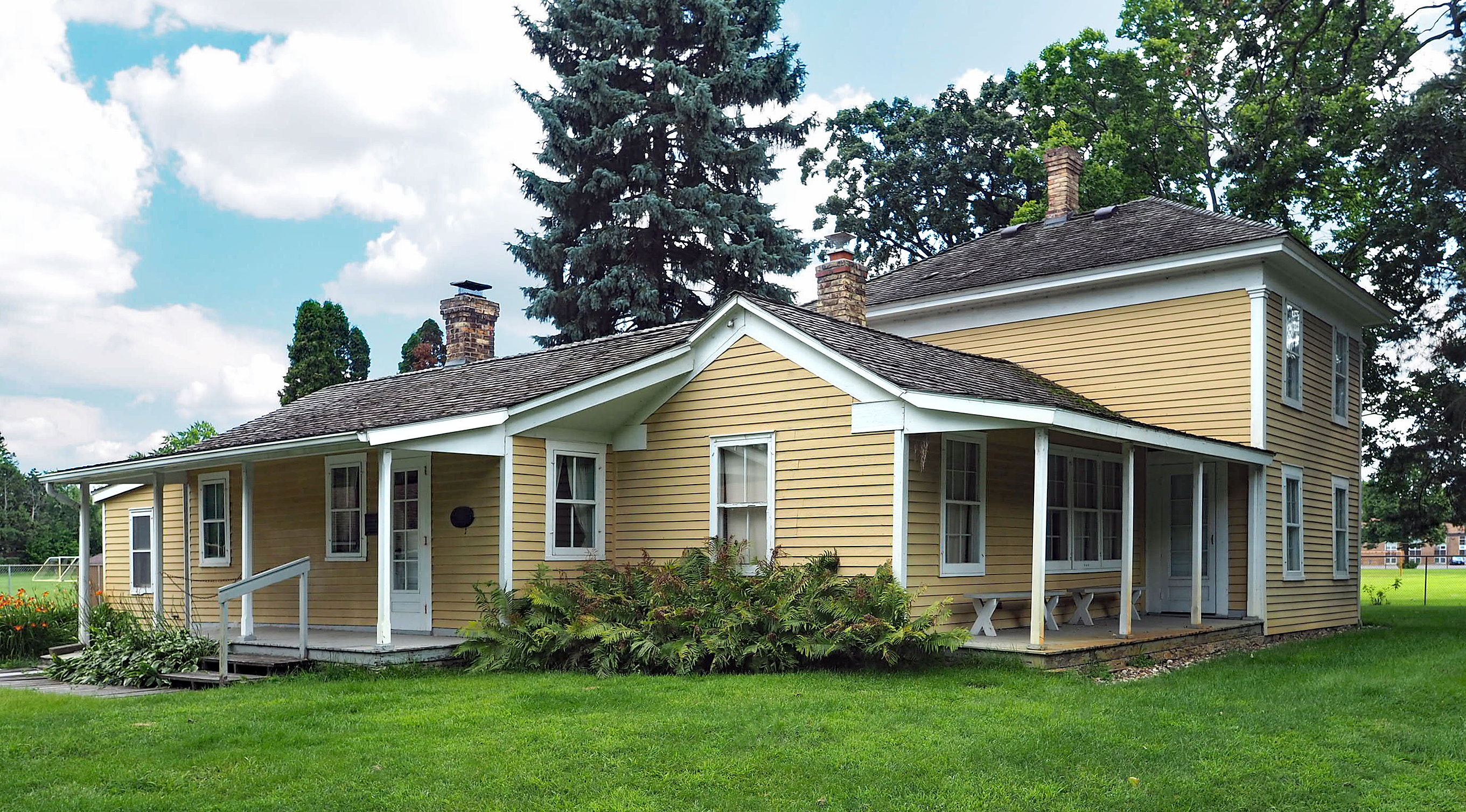 Riley Lucas Bartholomew House, 6901 Lyndale Ave S, Richfield, Minnesota, USA. Viewed from the northwest.